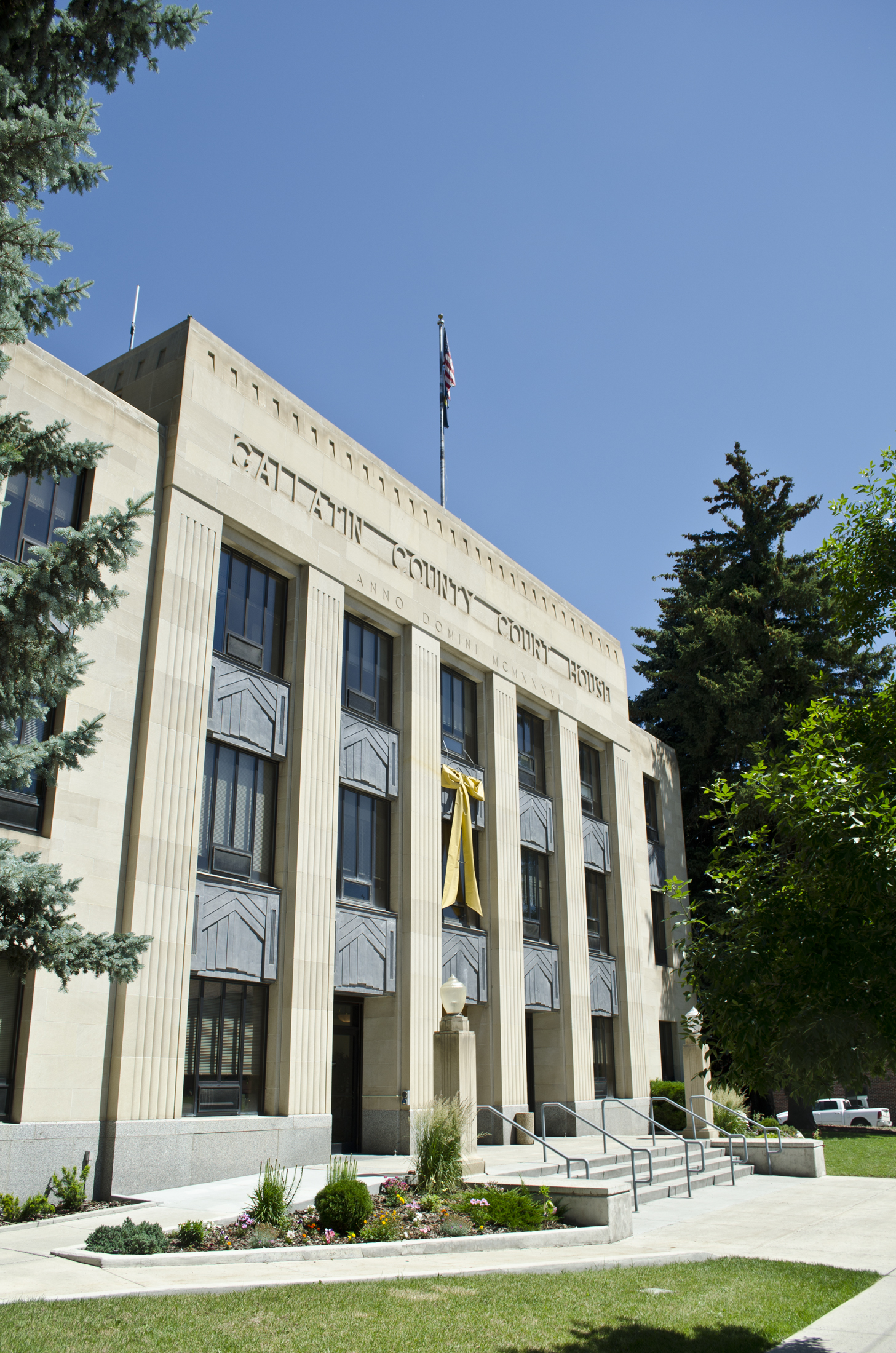 Looking east-northeast at the Gallatin County Courthouse, 301 W. Main Street, Bozeman, Montana. Designed by local architect Fred Willson (who built much of downtown Bozeman), it was constructed from 1935 to 1936. The Art Deco structure was built partially with federal funds from the Public Works Administration. The structure was listed on the National Register of Historic Places on December 21, 1987.